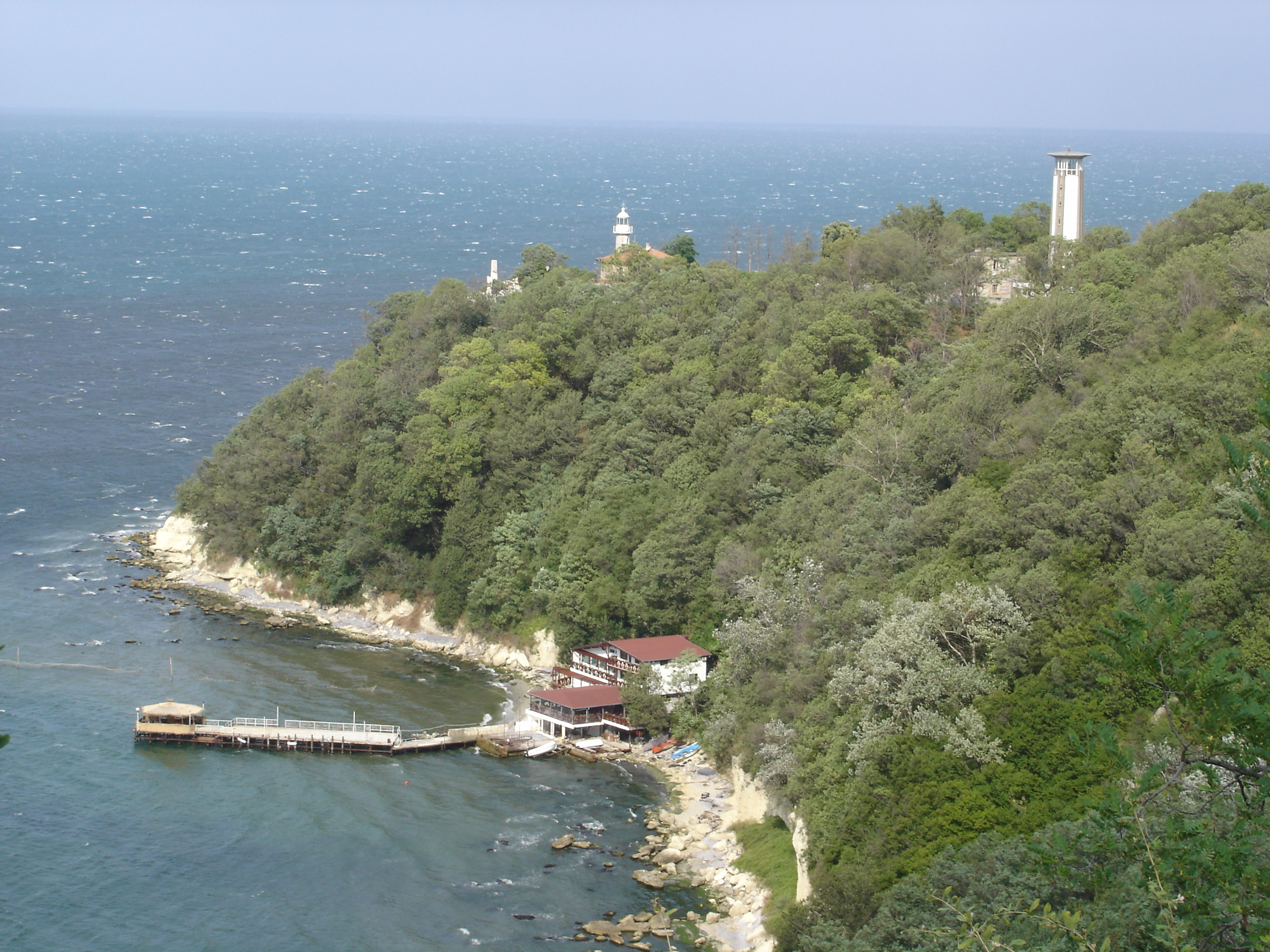 Cape Galata near Varna, Bulgaria. This photo shows both the 1913 lighthouse (damaged during World War II, repaired, later closed) and the modern 1987 lighthouse. This area has had lighthouses present since 1863.